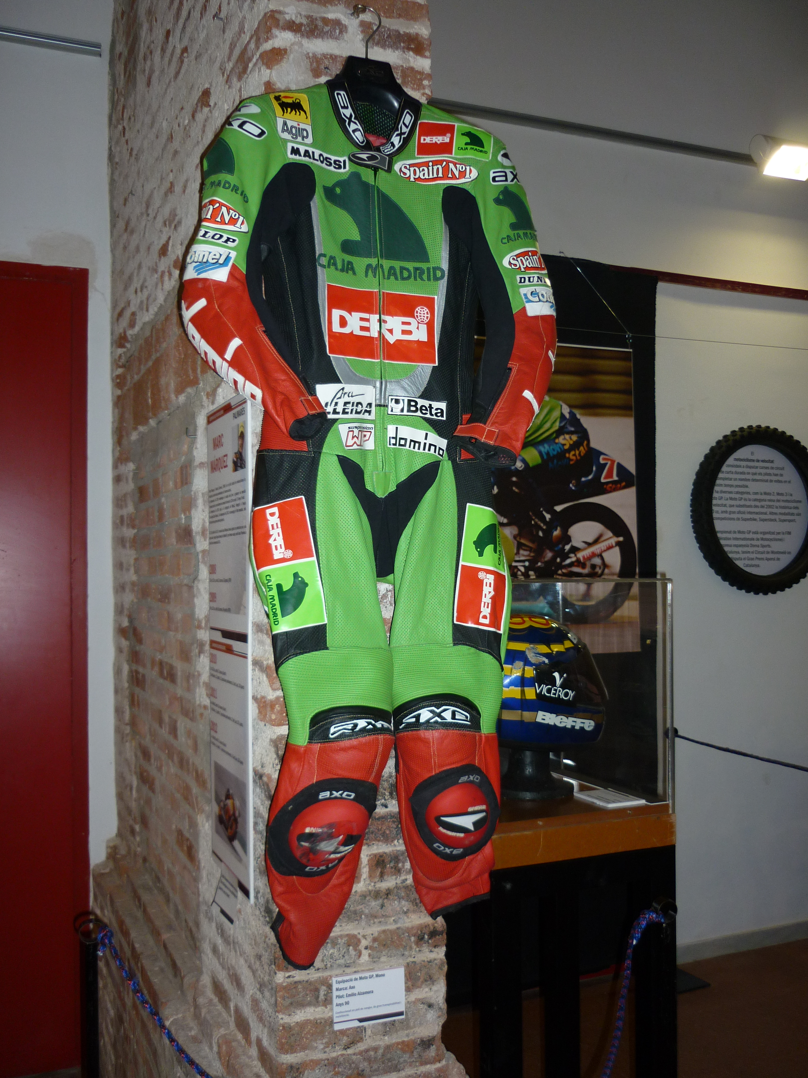 The equipment that wore Emilio Alzamora during late 2003